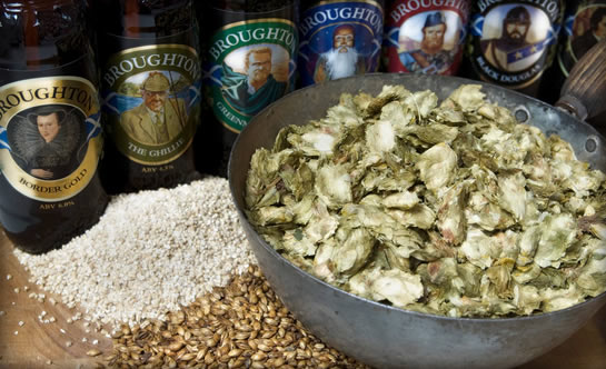 This photo was taken in West Linton in July 2013